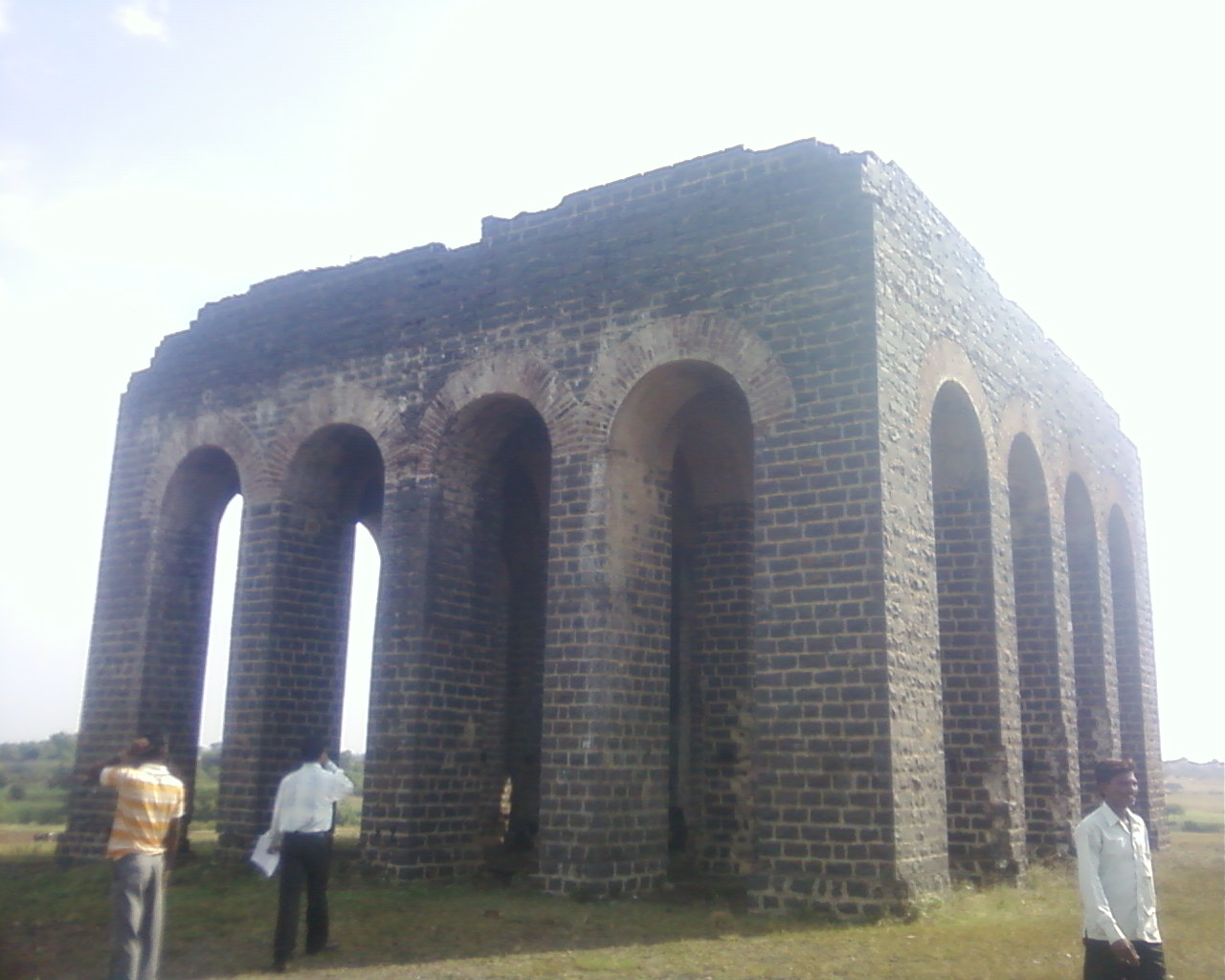 visapur water tank